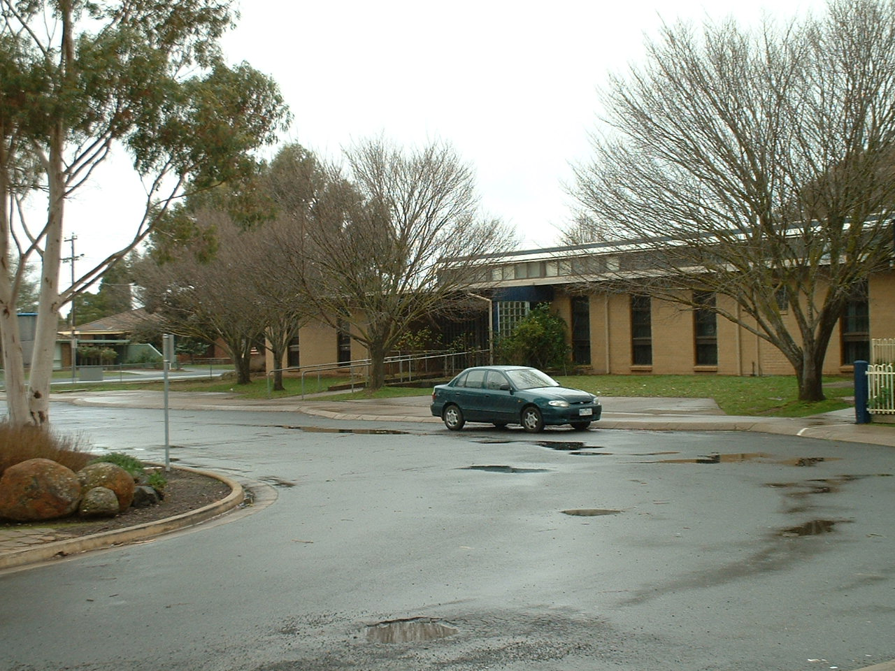 Wendouree Campus of Ballarat Secondary College, Victoria, Australia. Taken from the front of the Collishaw Complex looking east towards the administration building.